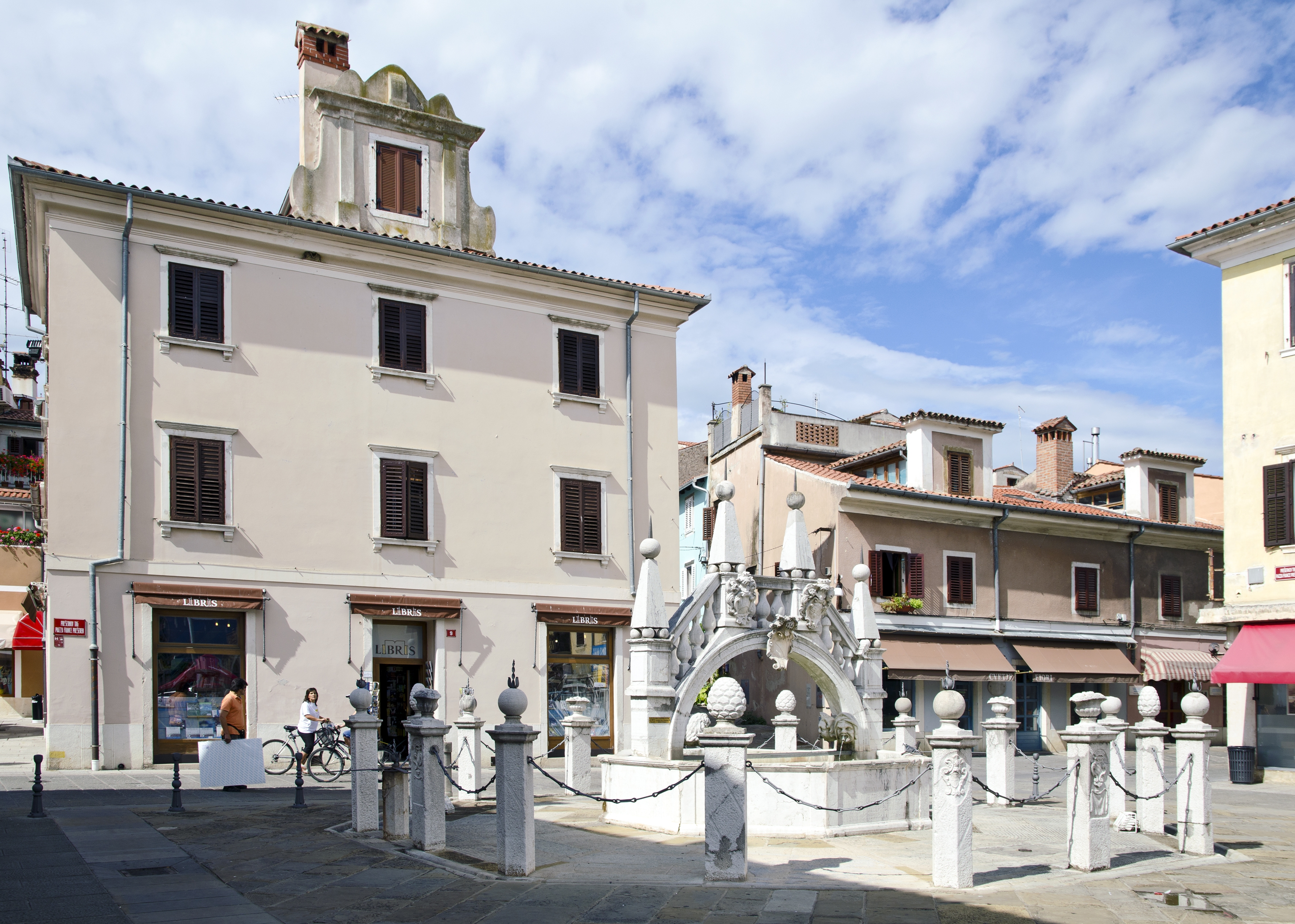 Koper, Da-Ponte fountain, built in 1432, current shape acquired in 1666